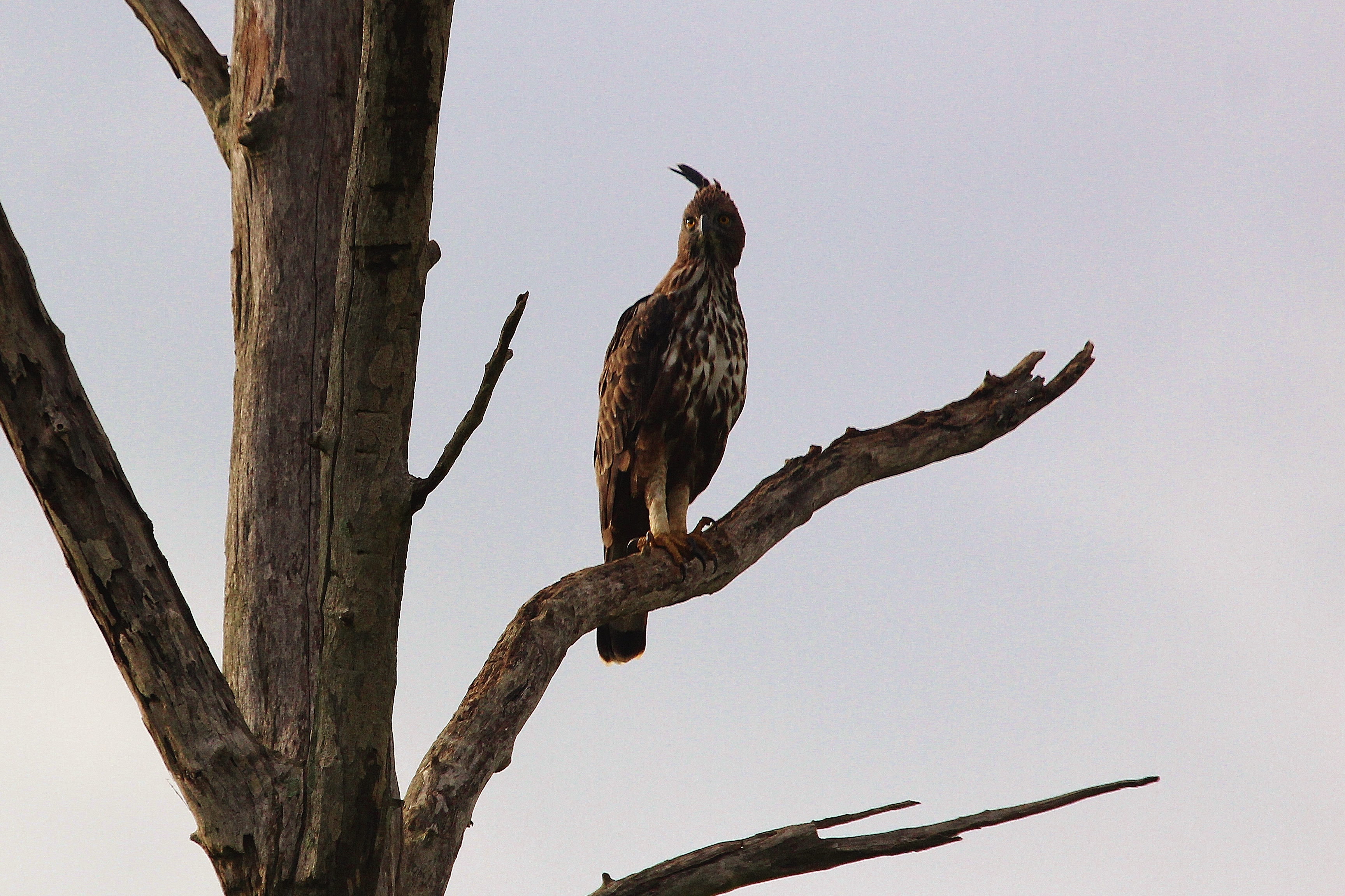 An adult changeable hawk-eagle perched in Udawalawe National Park, Sri Lanka.